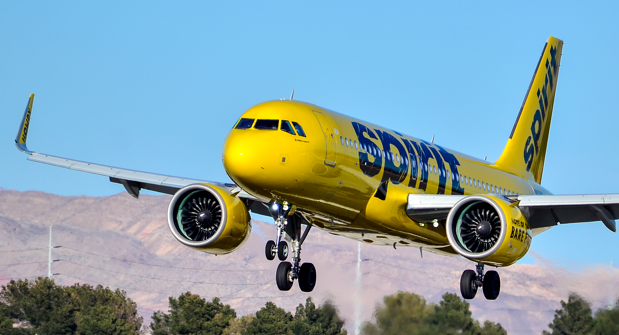 Las Vegas - McCarran International Airport (LAS / KLAS) USA - Nevada March 24, 2017 Photo: Tomás Del Coro